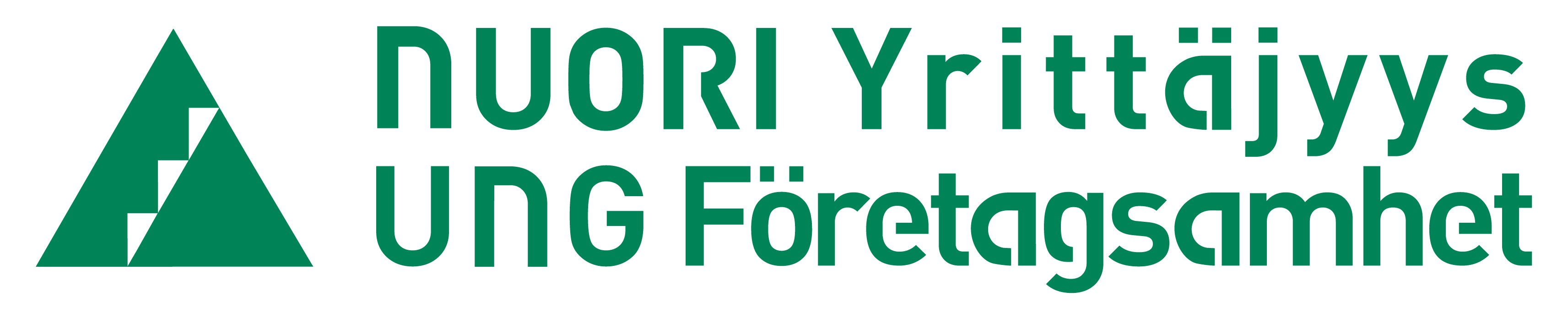 JA Finland´s (Nuori Yrittäjyys) logo